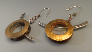 Original design fabricated earrings made from various small metals.